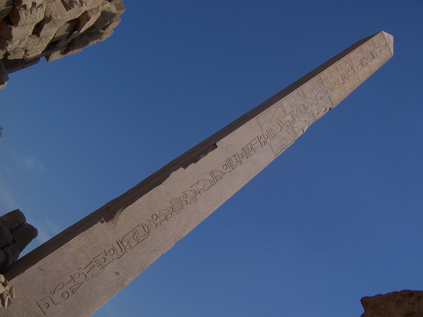 Karnak Temple Complex at Luxor, Egypt